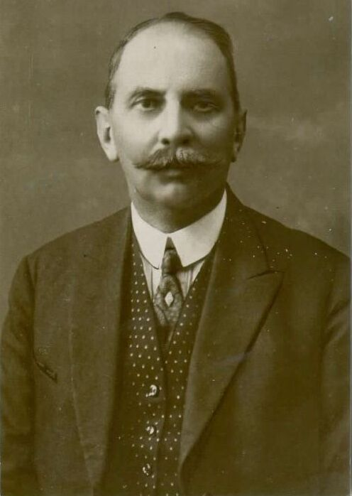 Otokar Rybář (1865-1927),slovene diplomat